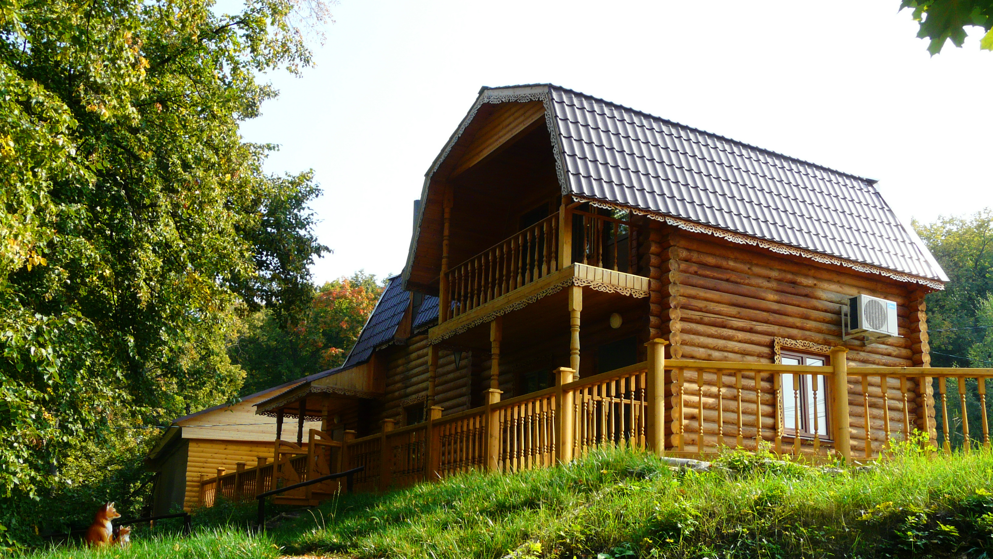 muzei lisy